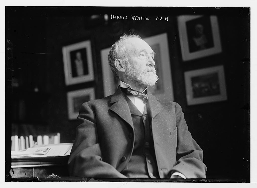 Horace White, in his study, Bain News Service